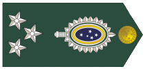 Shoulder strap rank insignia for General de Divisão (OF-8) of the Brazilian Army.